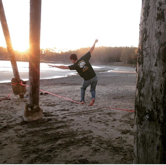 this picture shows someone slack lining under the pier